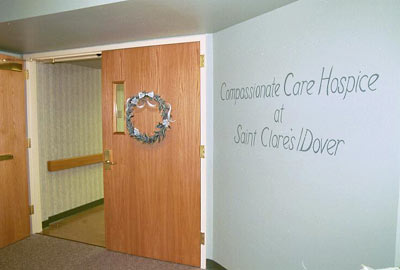 Front Door of Compassionate Care Hospice inpatient unit at Dover